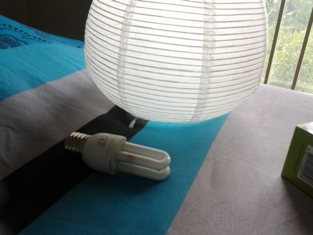 An E27 CFL bulb next to an Ikea Chinese lamp